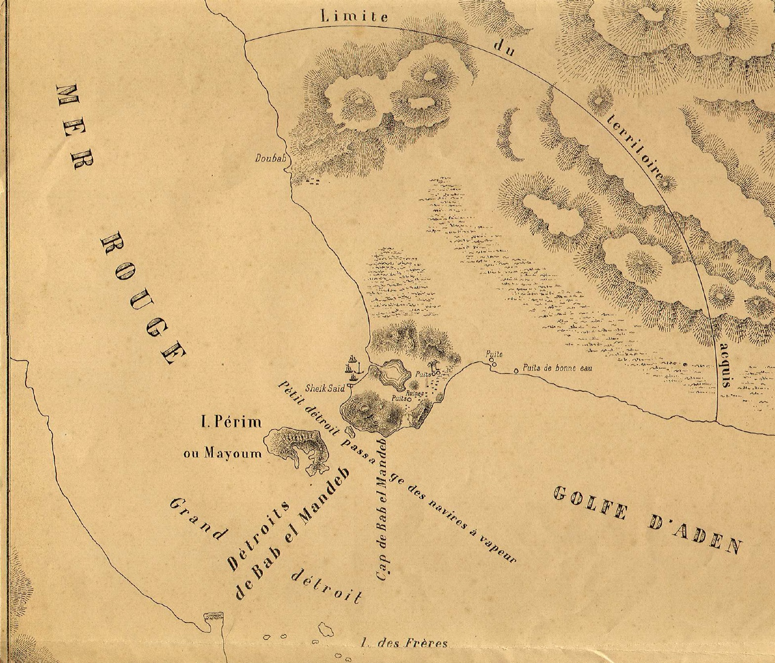 Map of the Territory of Cheikh Said. This map may have been included in the prospectus of the Société d'étude du Territoire de Bab el-Mandeb (founded in 1868) better known as the Territoire de Cheikh Saïd (spelled Sheikh Said or Sheikh Syed in English)